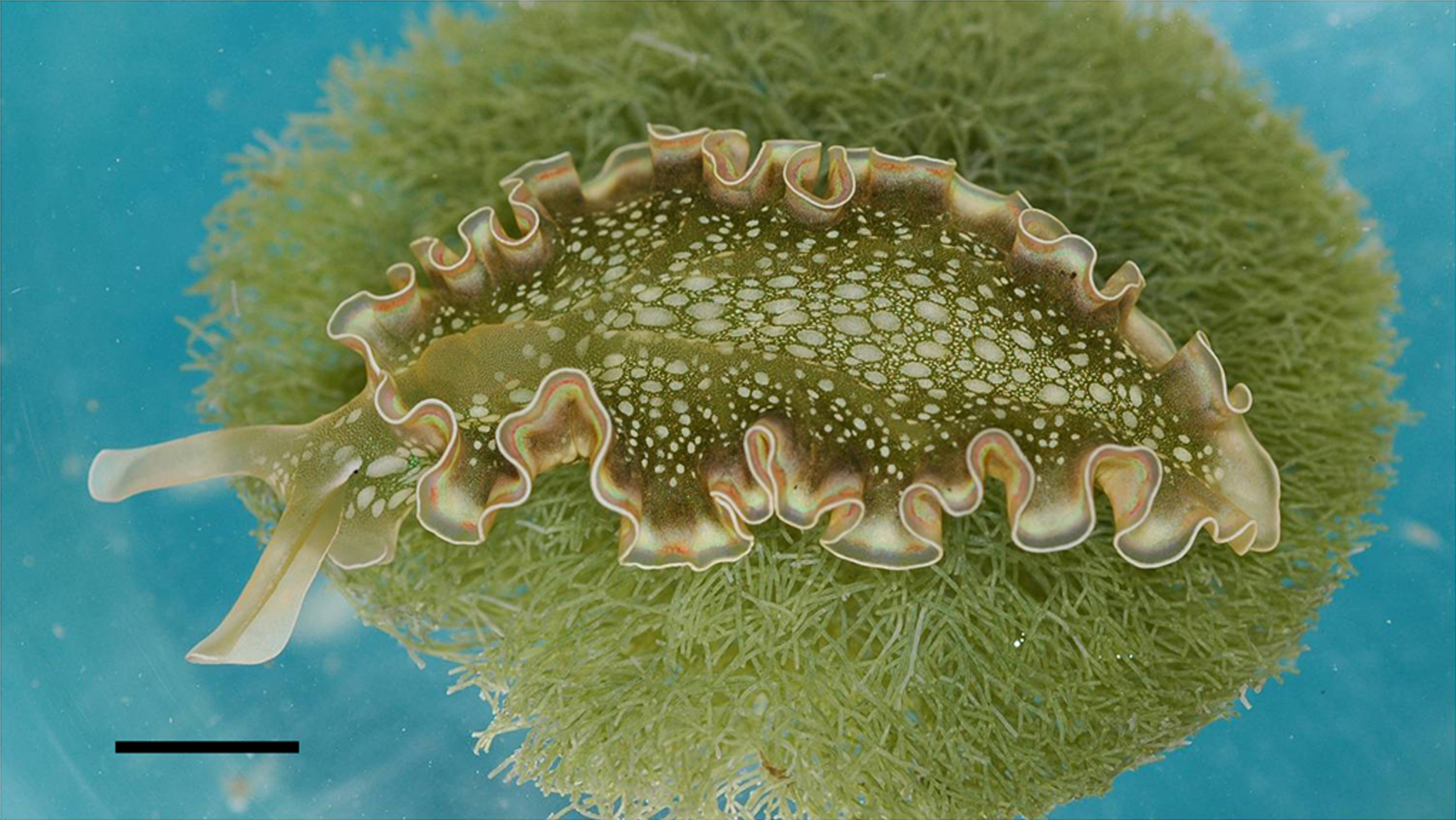 Dorsal view of Elysia crispata, synonym: Elysia clarki on the algal food source Penicillus capitatus. The scale bar is 5 mm. (not 500 mm as claimed in the source.)